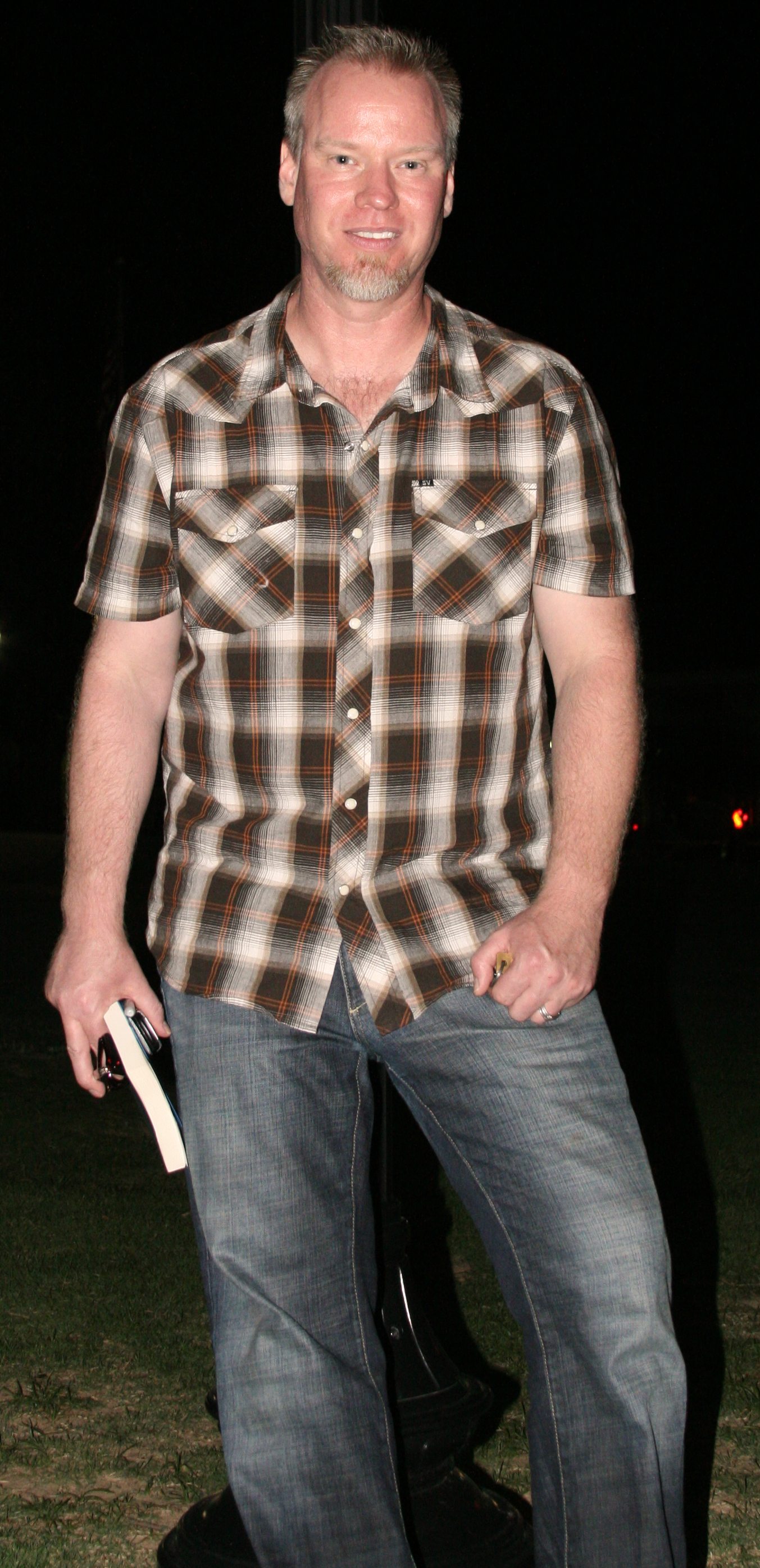 Shawn Mullins at the Historic Lawrenceville Court House, July 24, 2009. Lawrenceville Georgia.